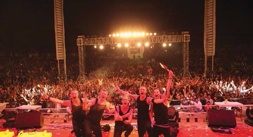 These are the copenhagen drummers in techfest 2012.